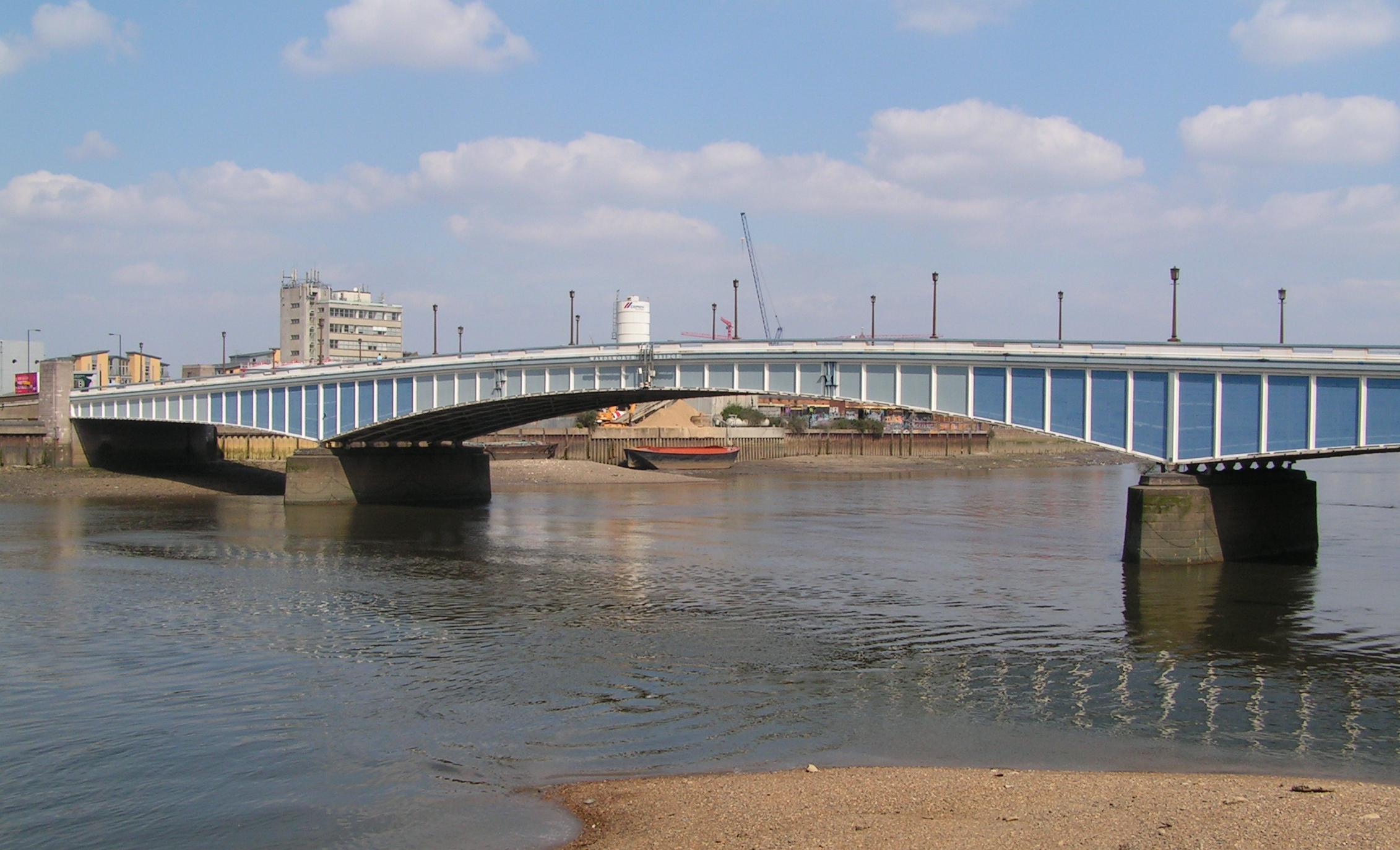 Wandsworth Bridge at low tide